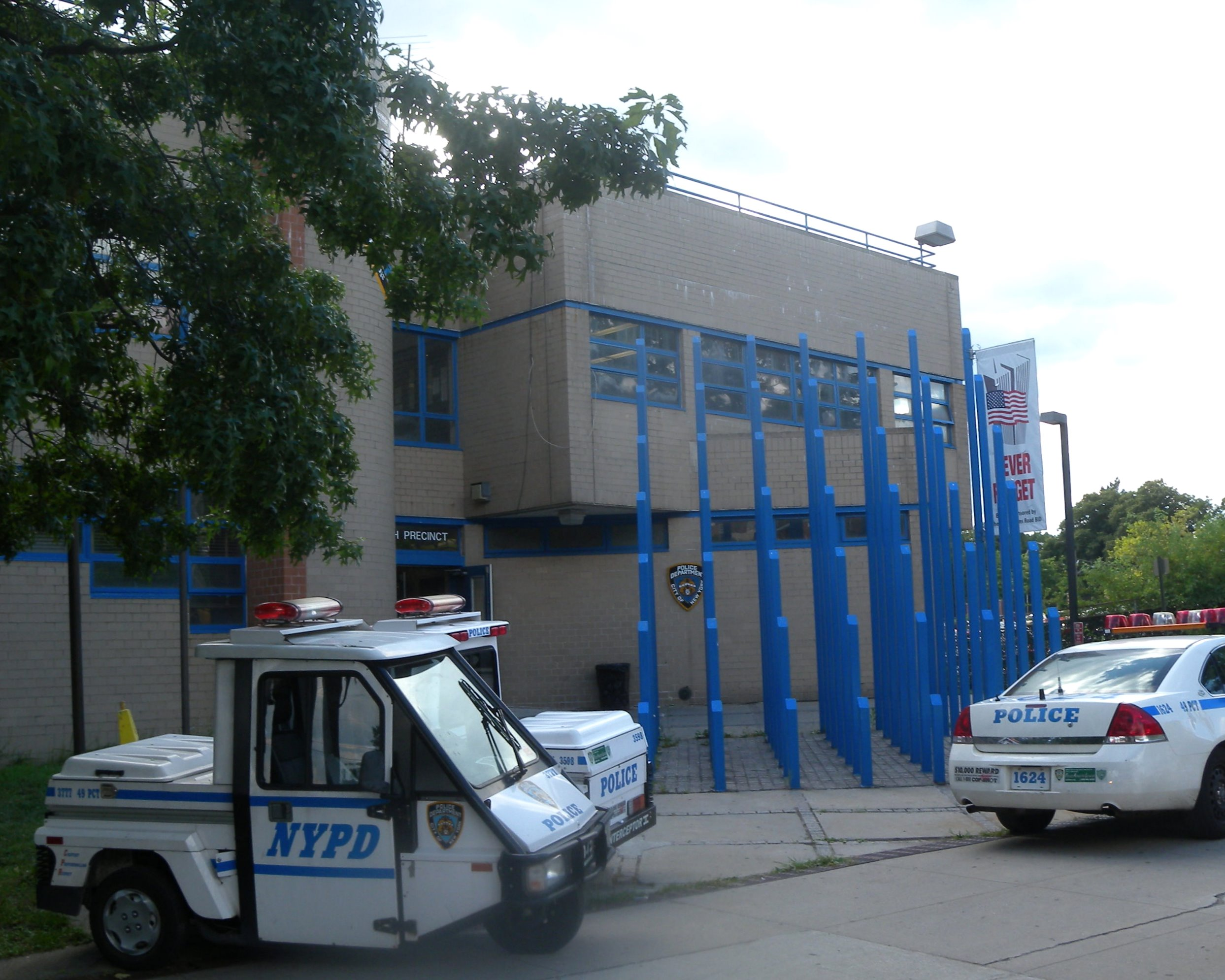 Looking northwest at 49th Precinct on a mostly sunny early afternoon.